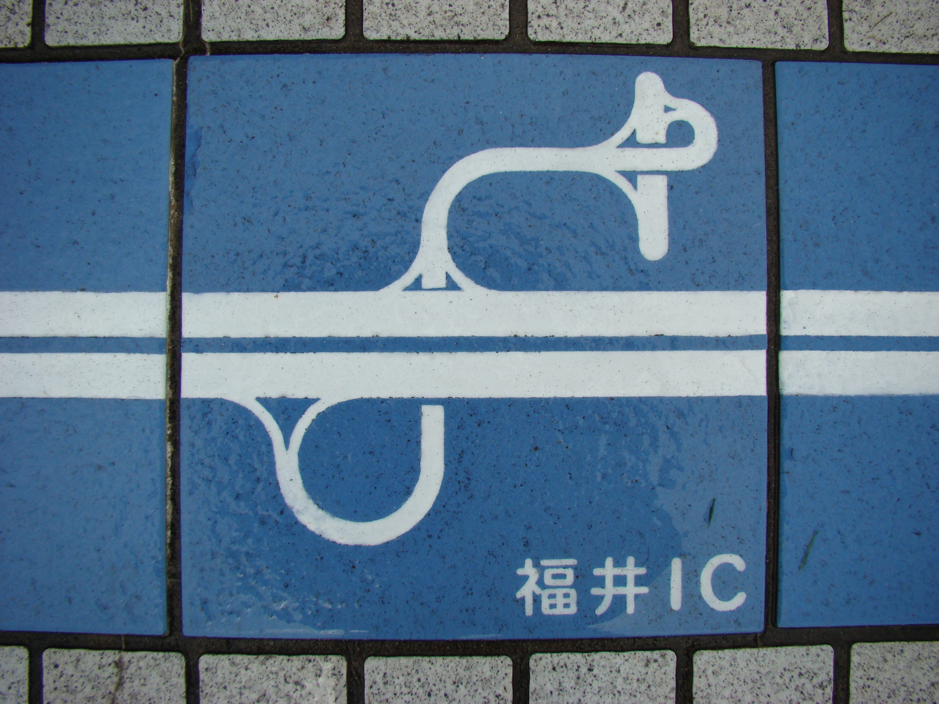 The tile which designed a shape of the Fukui Interchange（Hokuriku Expressway）（There is this tile in Hokuriku Expressway Nadachi-Tanihama Service Area.）. Place - Chayagahara,Joetsu City,Niigata Prefecture,Japan Date - August 9, 2009 Format - JPEG, 3264x2448pixel, 24bit colors. Photographer - NALA Wiki (talk)